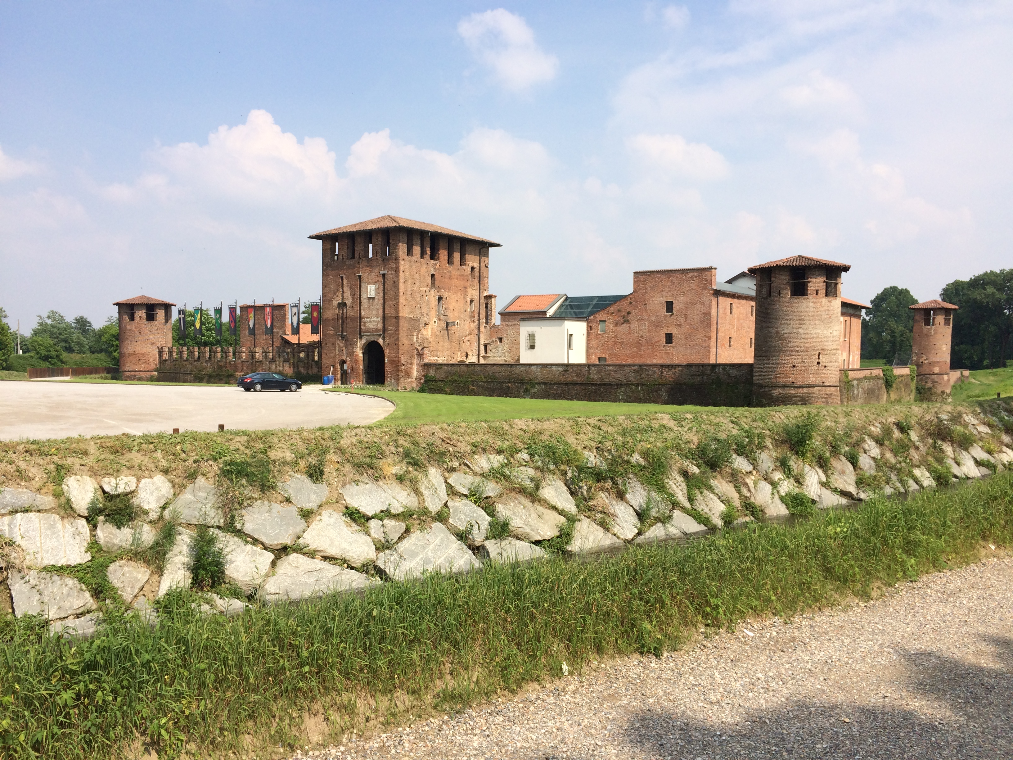 Castello di San Giorgio (Legnano)